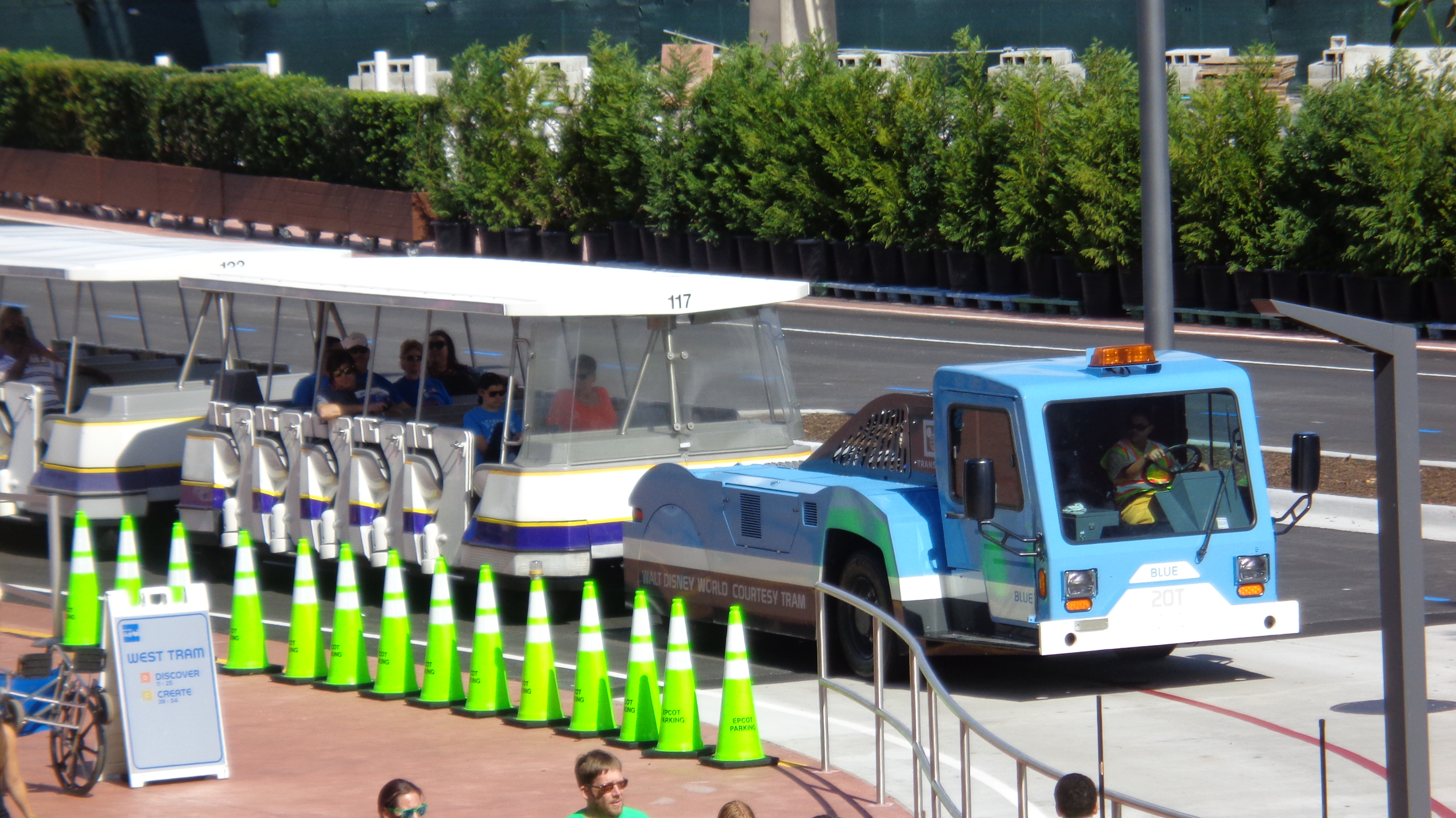 A parking lot tram at Epcot in Walt Disney World.